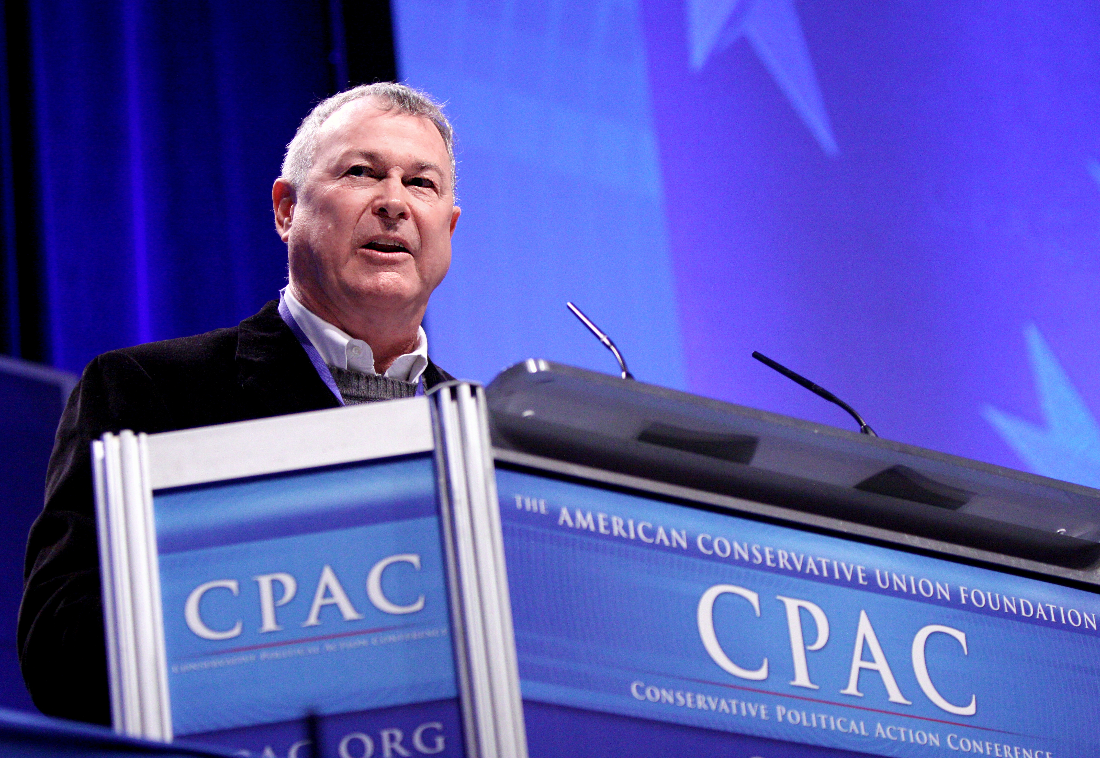 in Washington, D.C.